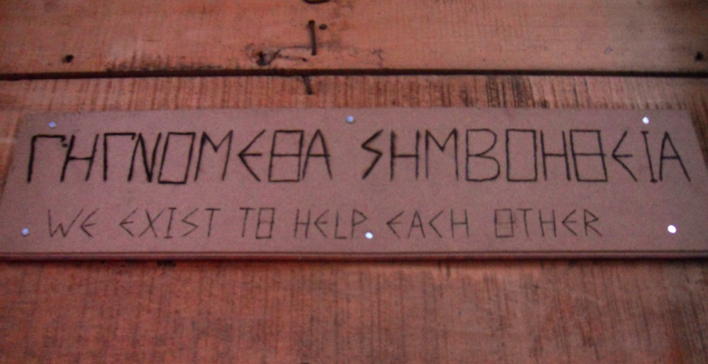 Anonymous sign in Metaxourgeio.